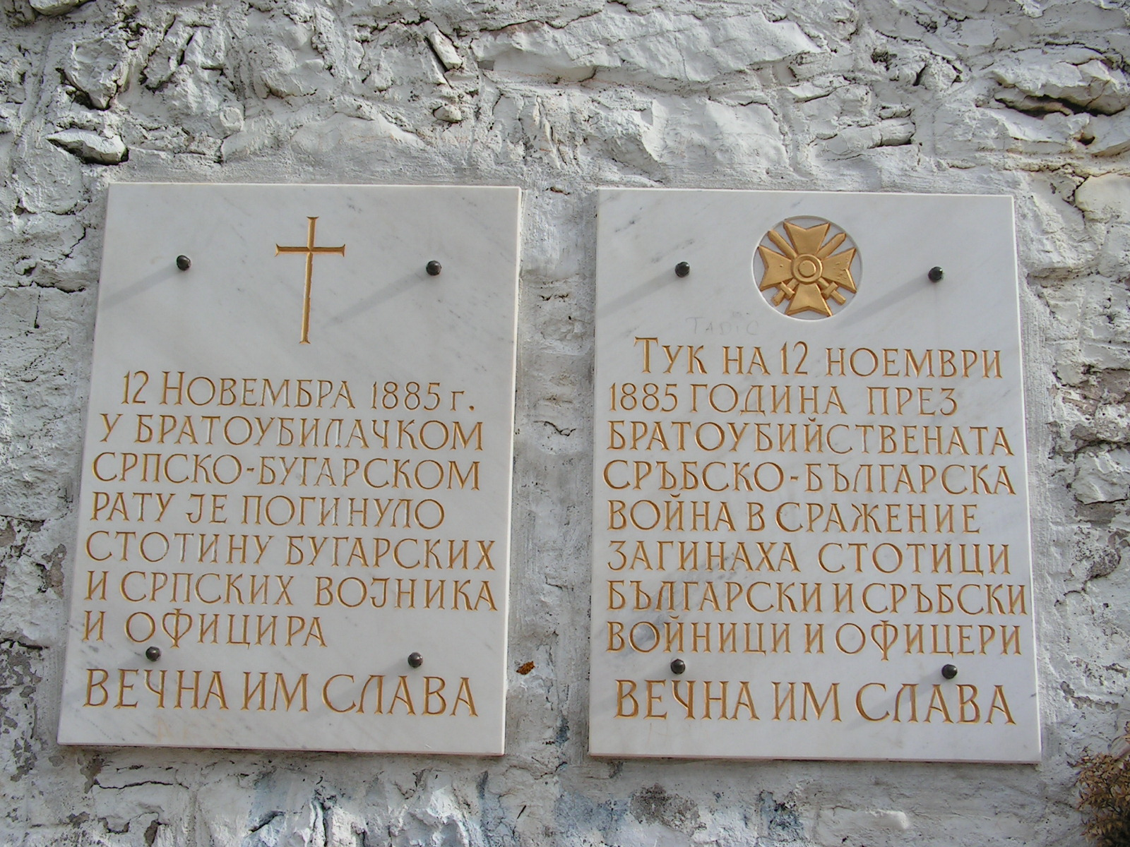 Neshkov peak in Dimitrovgrad/Tzaribrod, Serbia